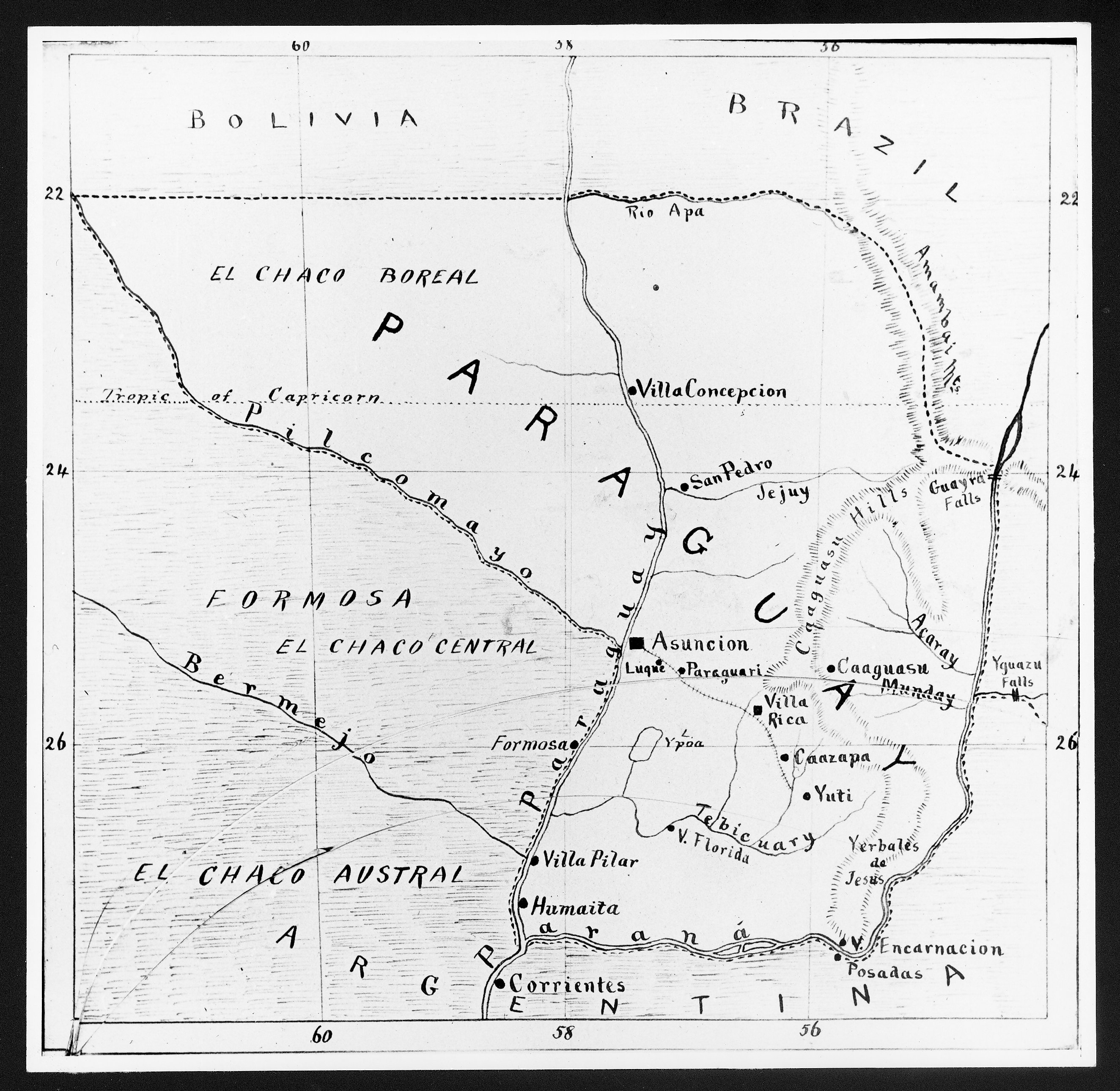 Map of Paraguay, drawn by hand by John Lane (brother of William Lane). New Australia Colony and Cosme Colony were south-west of Asunción, the capital of Paraguay, close to the town of Villarica.